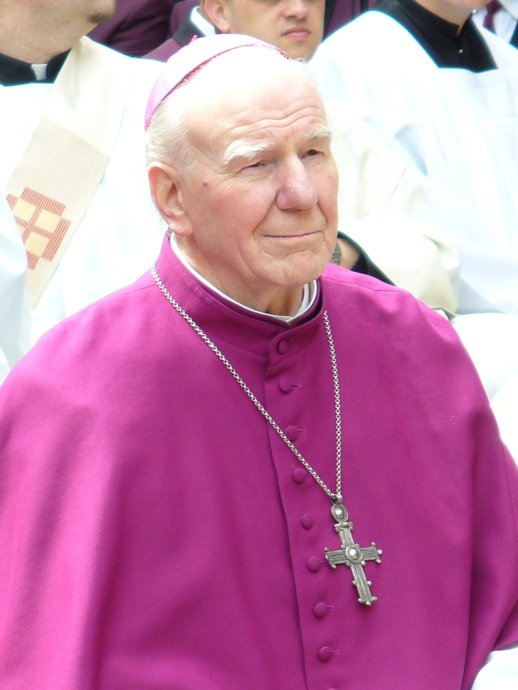 Auxiliary Bishop emeritus Hans-Reinhard Koch at the Pilgrimage of Men to Klüschen Hagis